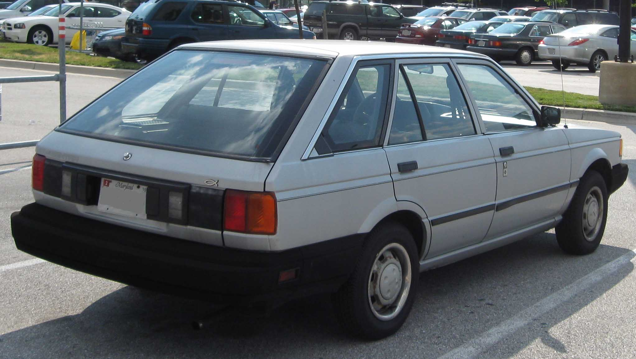 1989-1990 Nissan Sentra photographed in College Park, Maryland, USA.